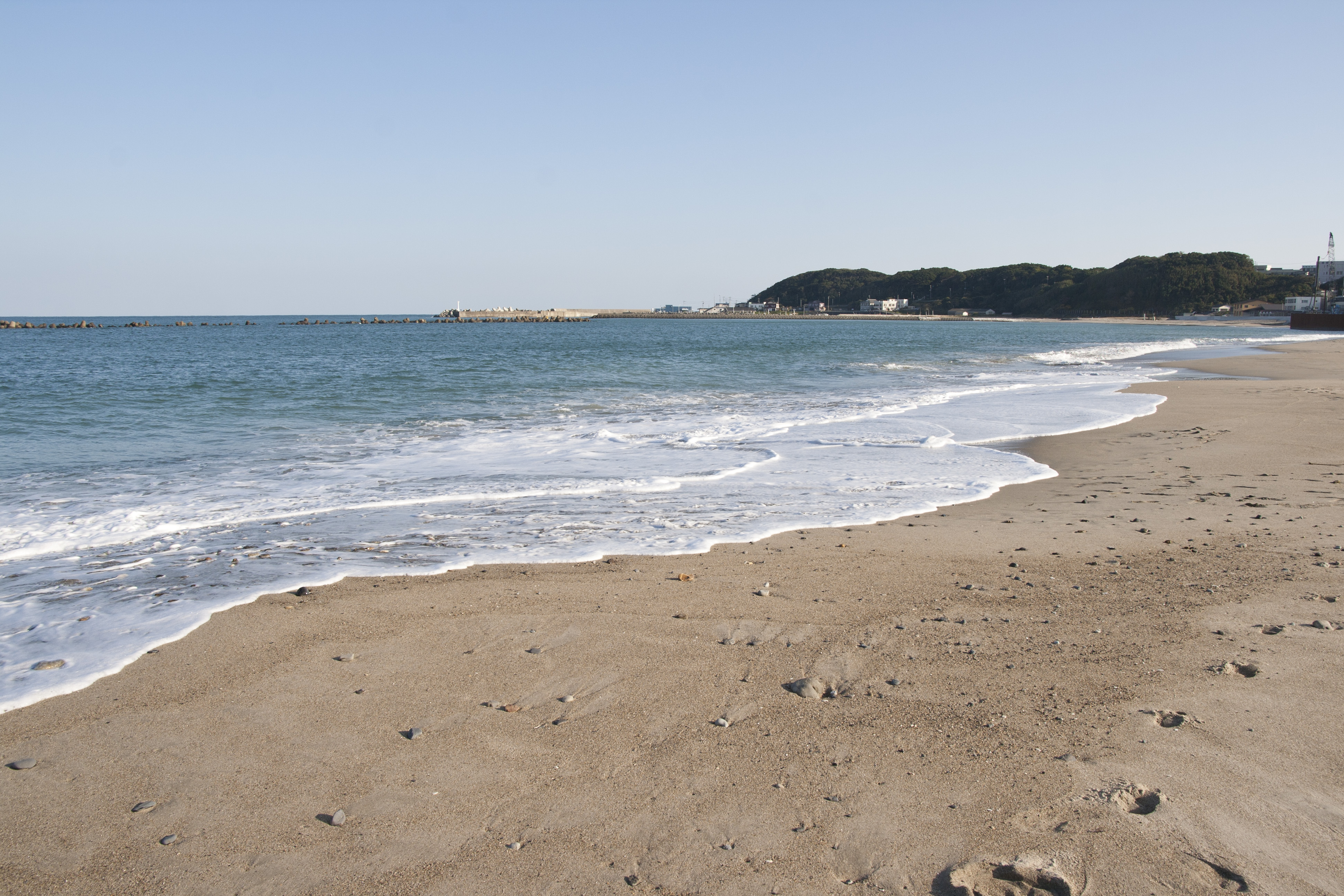 Ajigaura Beach, Hitachinaka City, Ibaraki Prefecture, Japan.